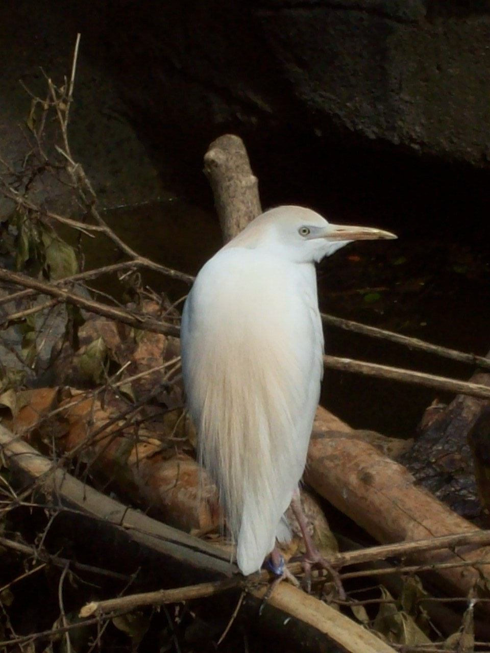 A cattle egret with its neck retracted.